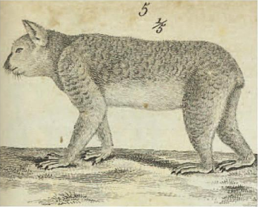 The Koala by Cuvier in 1817